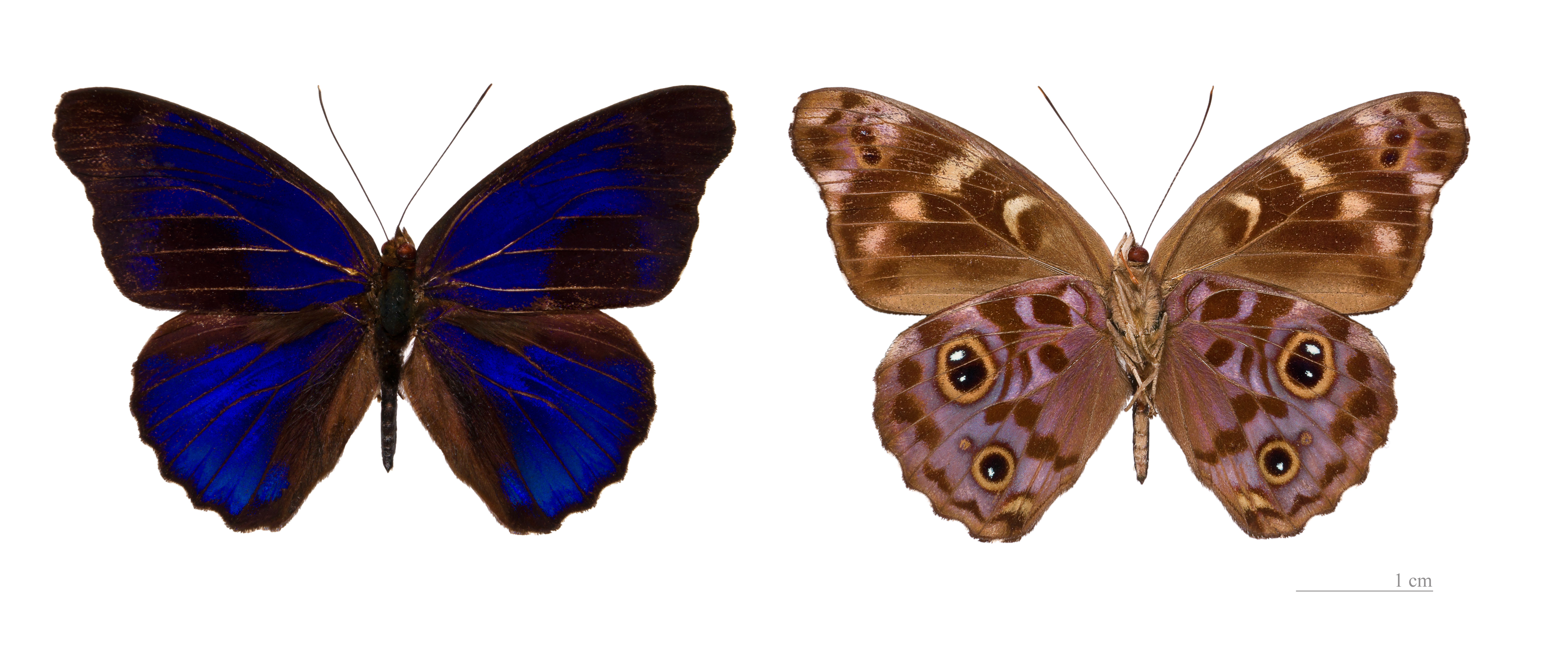 ♂ - Two views of same specimen Locality : Cacao road, PK4 French Guiana.